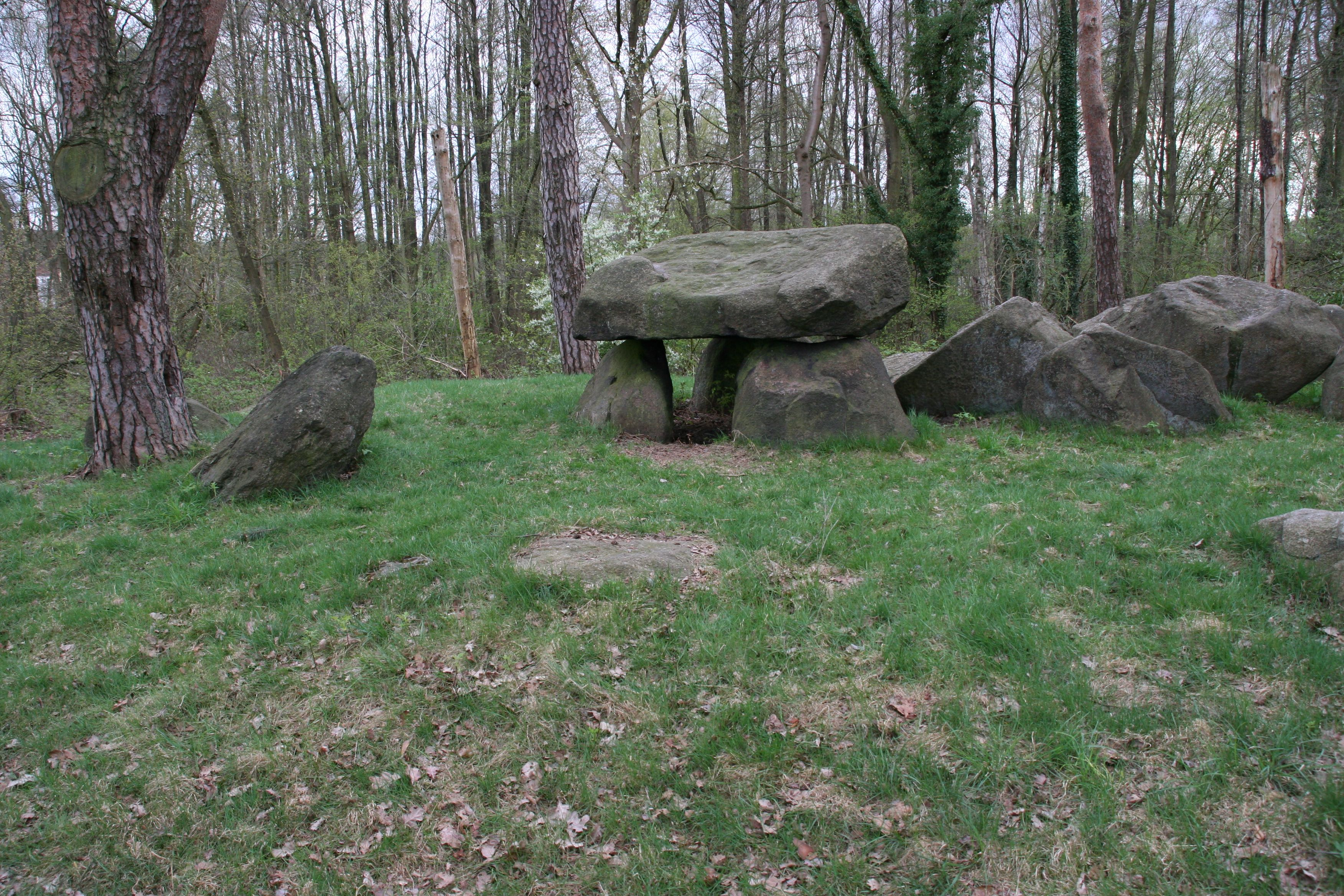 Voxtrup: megalithic chambered tomb "Devil's Stones"